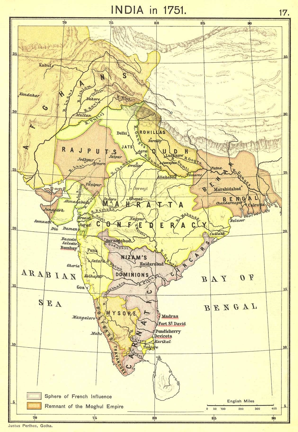 Political map of India in 1751, at the height of French influence in India. Map from the Historical Atlas of India, by Charles Joppen (London: Longmans, Green & Co., 1907)